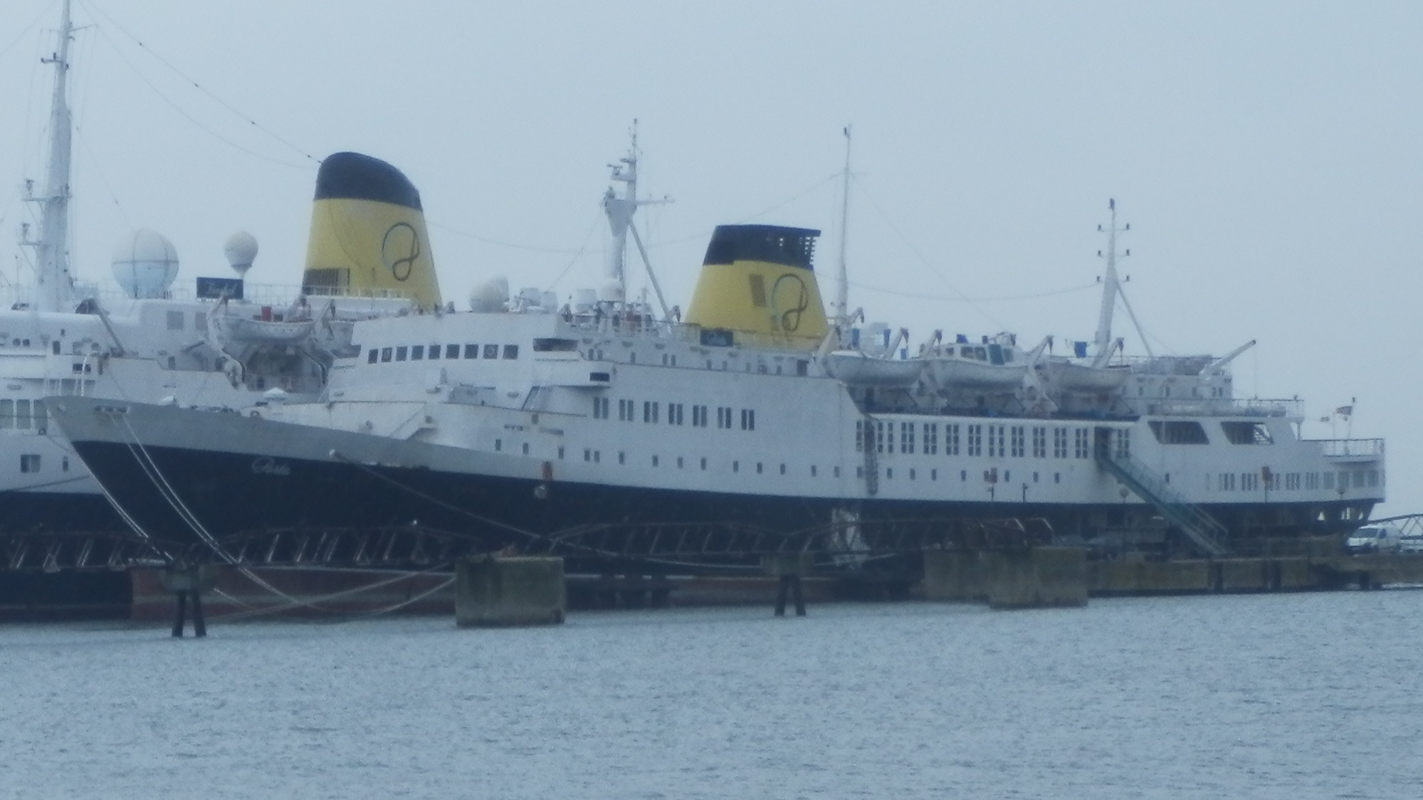 Funchal and Porto docked in Cais da Matinha